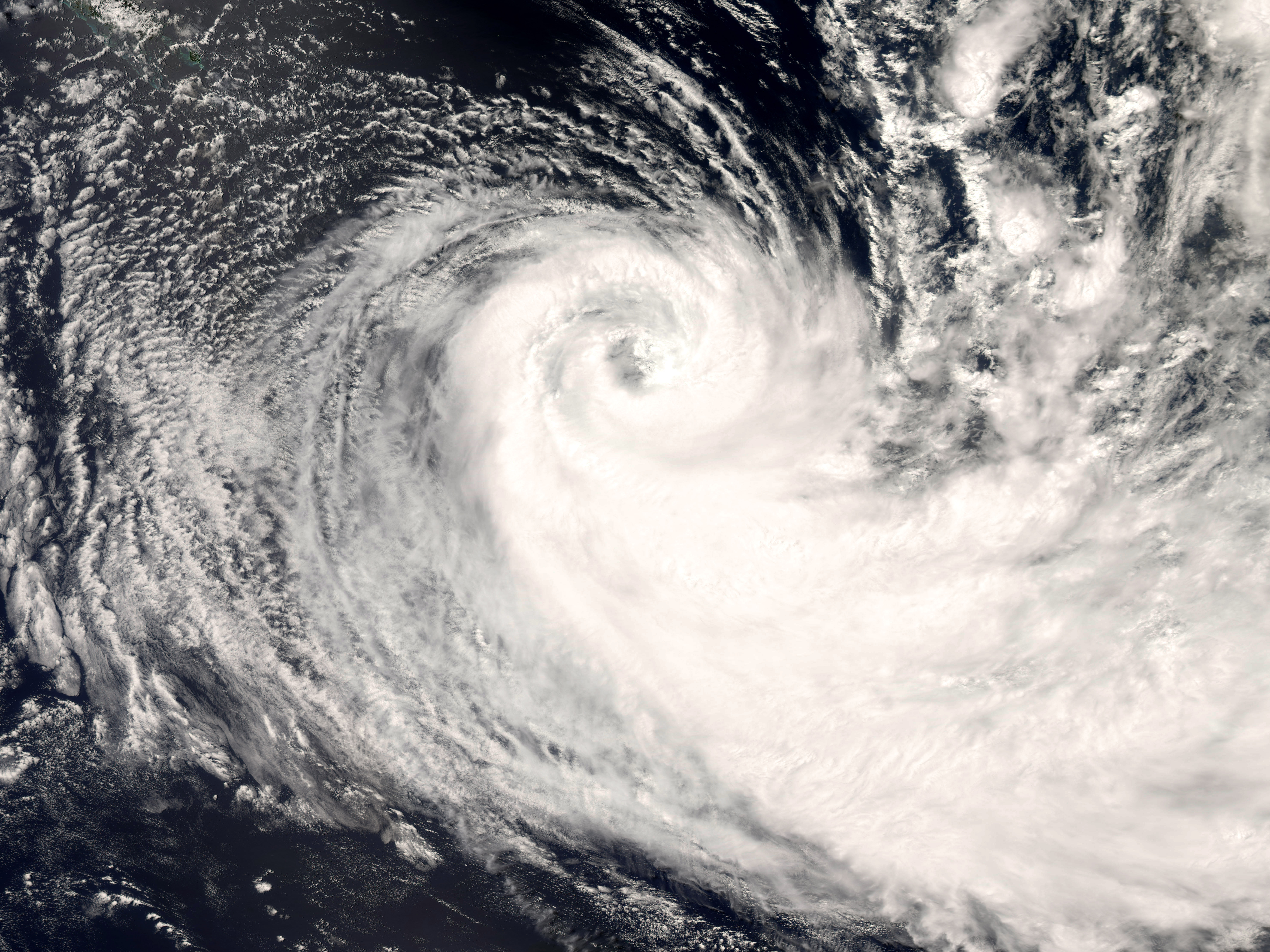 Tropical Cyclone Gene was slowly fading away when the Moderate Resolution Imaging Spectroradiometer (MODIS) on NASA’s Aqua satellite captured this photo-like image on the afternoon of February 4, 2008. At its height on January 31, the storm reached Category 3 status, with winds of 185 kilometers per hour (115 miles per hour or 100 knots), according to the Joint Typhoon Warning Center. By the time MODIS captured this image at 2:25 p.m., local time, Gene’s winds had dropped to between 102 and 83 km/hr (63-52 mph or 45-55 knots), making it a tropical storm. In this image, Gene still has the distinct spiral structure seen in well-formed storms. Well-defined bands of clouds spiral around a loose eye. The storm was moving southeast over the South Pacific as it degraded. Throughout its lifetime, Gene left serious damage on the island nations of Fiji and Vanuatu. The storm struck Fiji’s islands between January 27 and January 30, causing 7 deaths and widespread minor damage to crops and buildings, said the Asia-Pacific Center for Emergency and Development Information. The storm was stronger by the time it crossed over Vanuatu. The islands of Futuna and Anatom reported the loss of many homes, schools, churches, and other buildings, said the Asia-Pacific Center for Emergency and Development Information. As of February 5, the storm was moving away from inhabited islands.